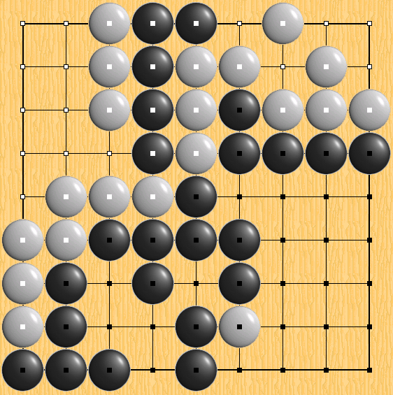 Illustration to scoring go result on 9x9 board. White small boxes marks white stones, black dead stones and white territory, black boxes - black alive stones, white dead stones and black territory. With komi 6.5 white wins 3.5 moku.